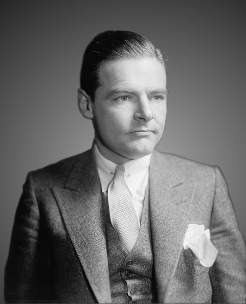 Henry Cabot Lodge II (1902–1985)